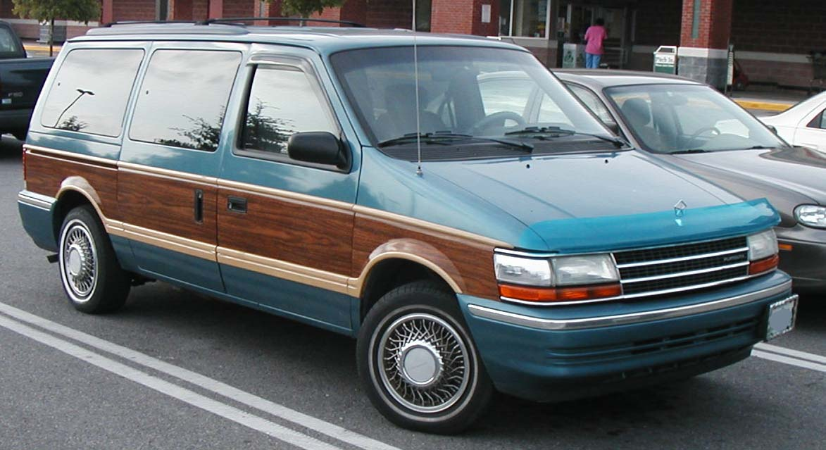 1991-1995 Plymouth Grand Voyager photographed in USA.